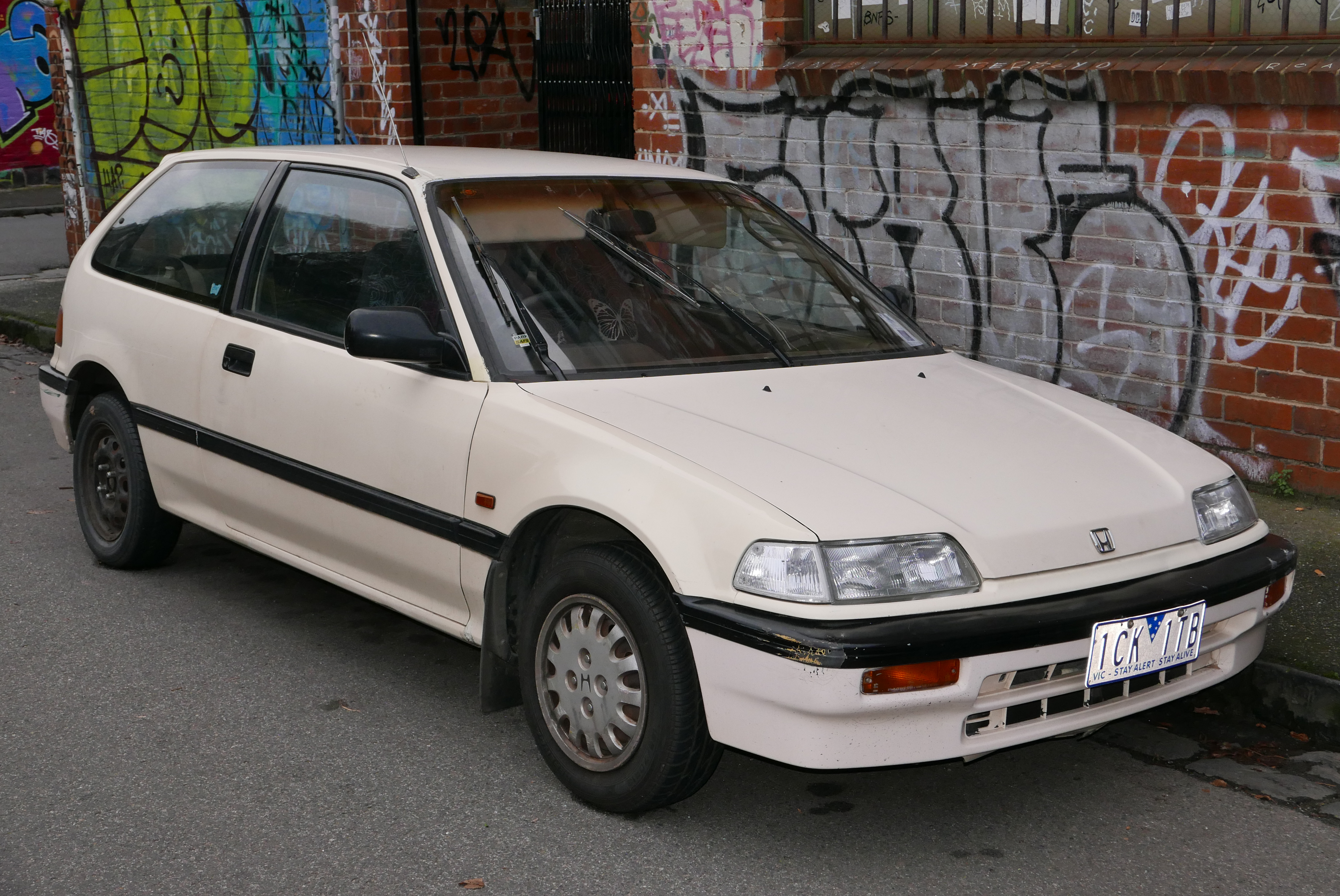 1987 Honda Civic GL hatchback. Photographed in Fitzroy, Victoria, Australia. Vehicle registration enquiry results Jurisdiction Victoria Registration 1CK1TB Chassis code JHMED64300S001856 Engine code D15B41001129 Compliance date 1988-01 Year of manufacture 1987 (not a typo)